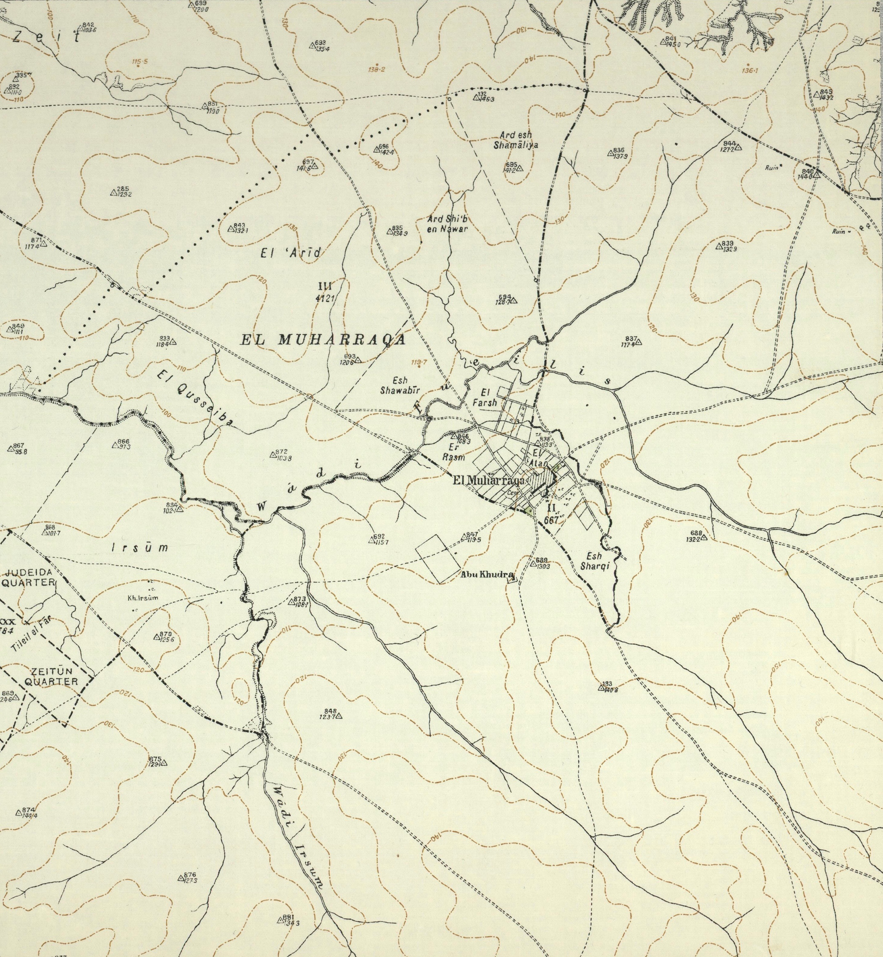 Al-Muharraqa 1931 1:20,000